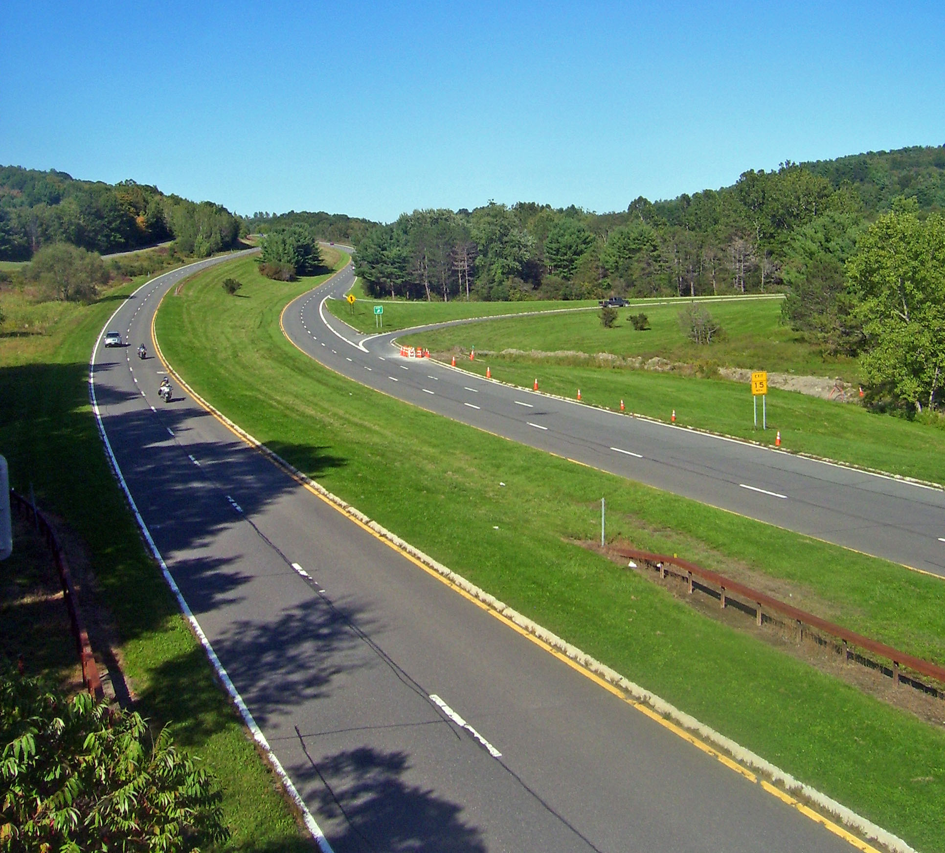 Taconic State Parkway looking north from NY 217 overpass in Ghent, NY, USA